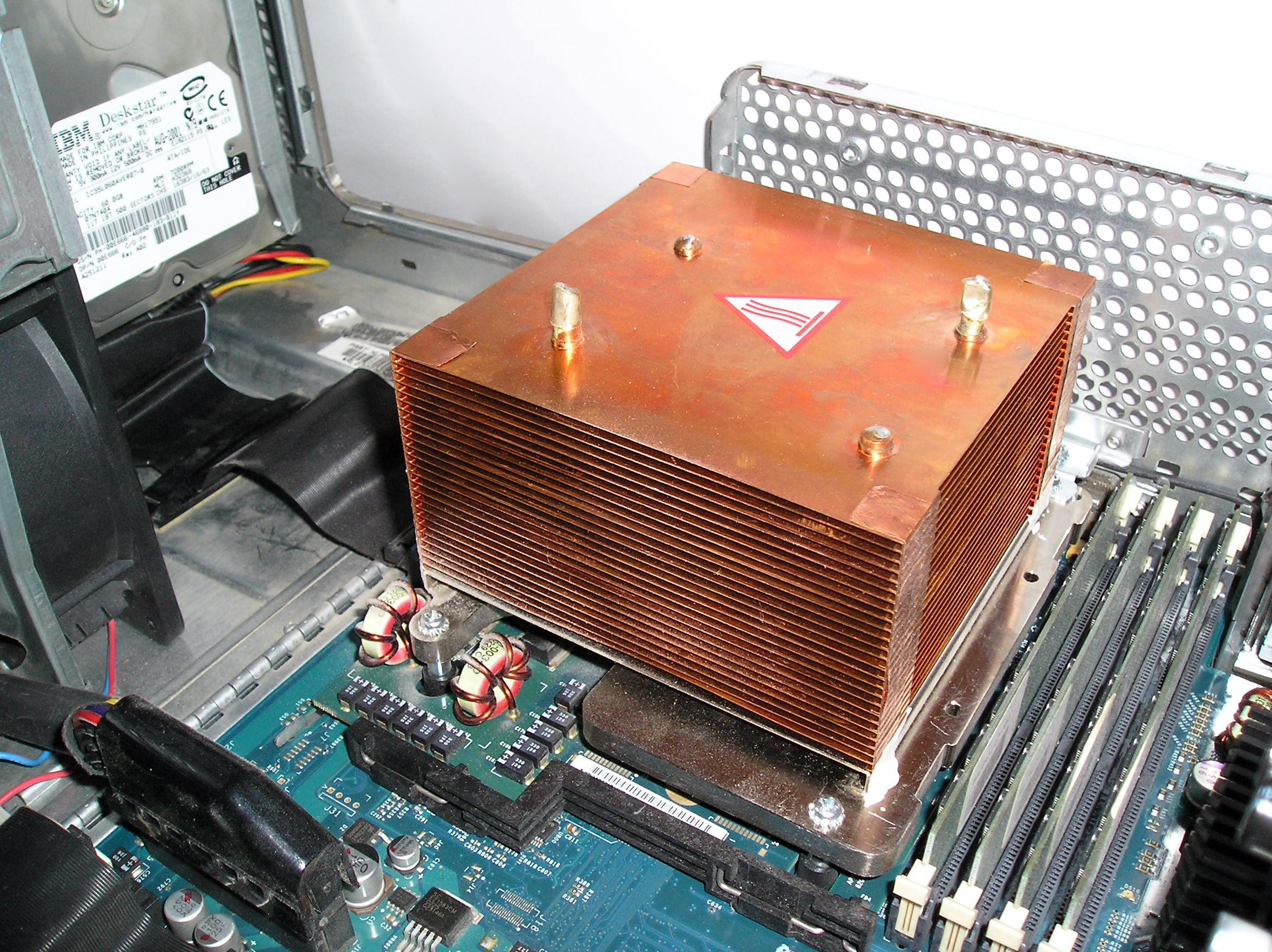 A heat sink featuring 4 heat pipes made entirely out of copper as found in this Apple Power Mac G4. The heat sink covers two PowerPC 7455 CPUs. Airflow is provided by the black 120 mm fan seen at the left.